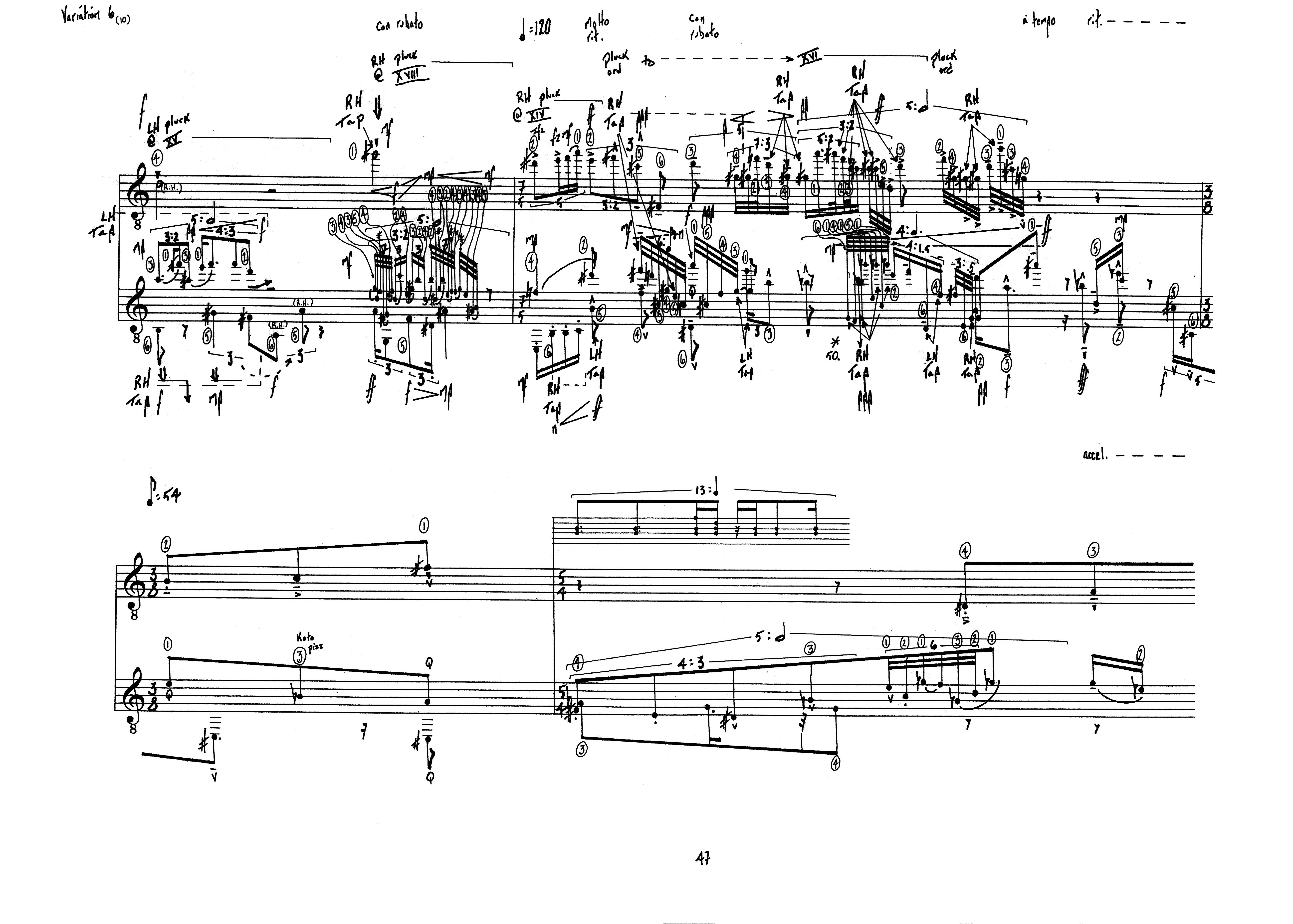 Michael Edward Edgerton_#72_Tempo Mental Rap, variation 6, page p47